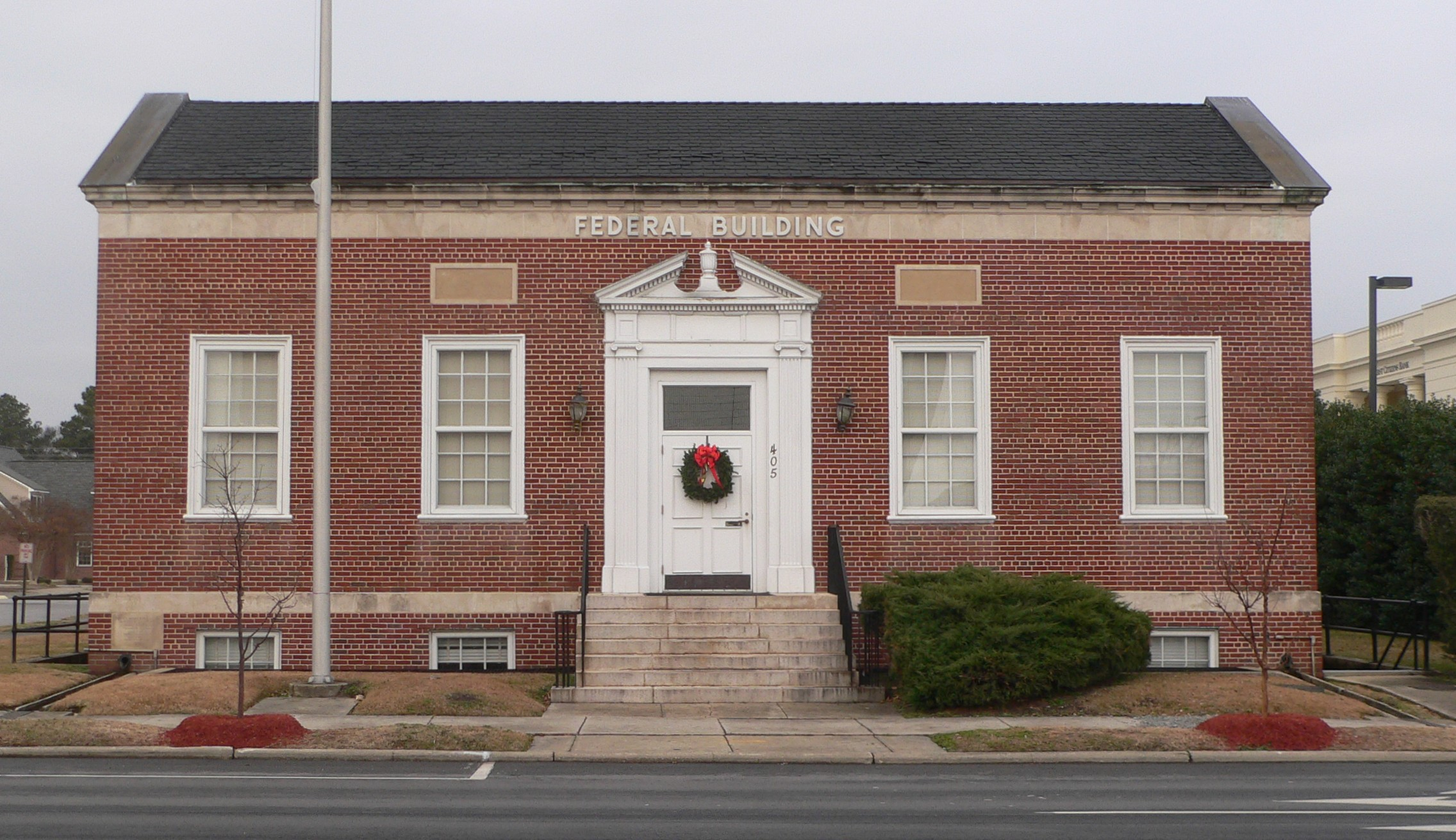 Former U.S. post office, located at 405 E. Market Street (northeast corner of 4th and Market Streets) in Smithfield, South Carolina; seen from the southwest, across Market.